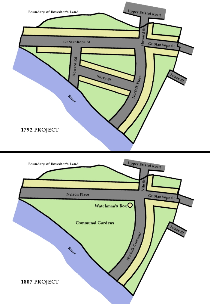 Richard Bowsher's plans (1792 and c.1807) for an urban development in Bath, centred on Norfolk Crescent.